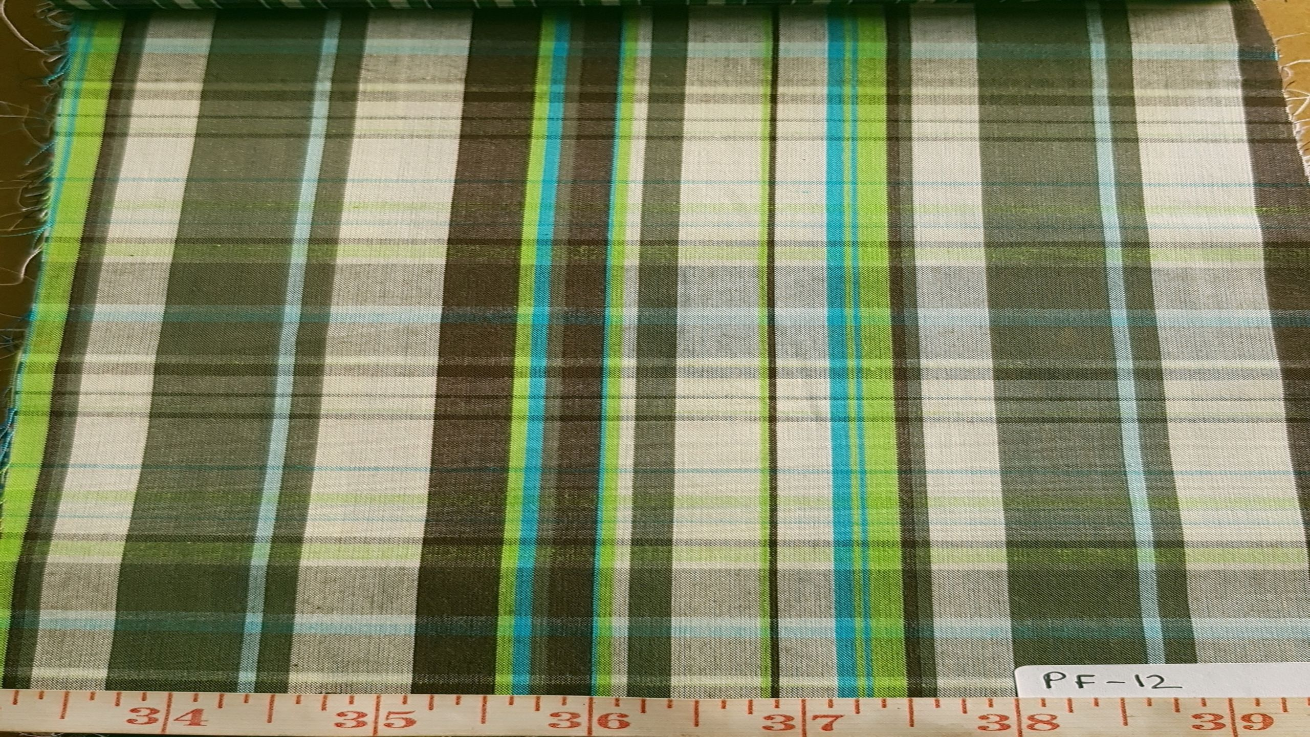 Madras (cloth)or Madras Plaid Fabric, made of Indian cotton, in the city of Madras, India, and used for preppy clothing like madras shirts, shorts and children's garments